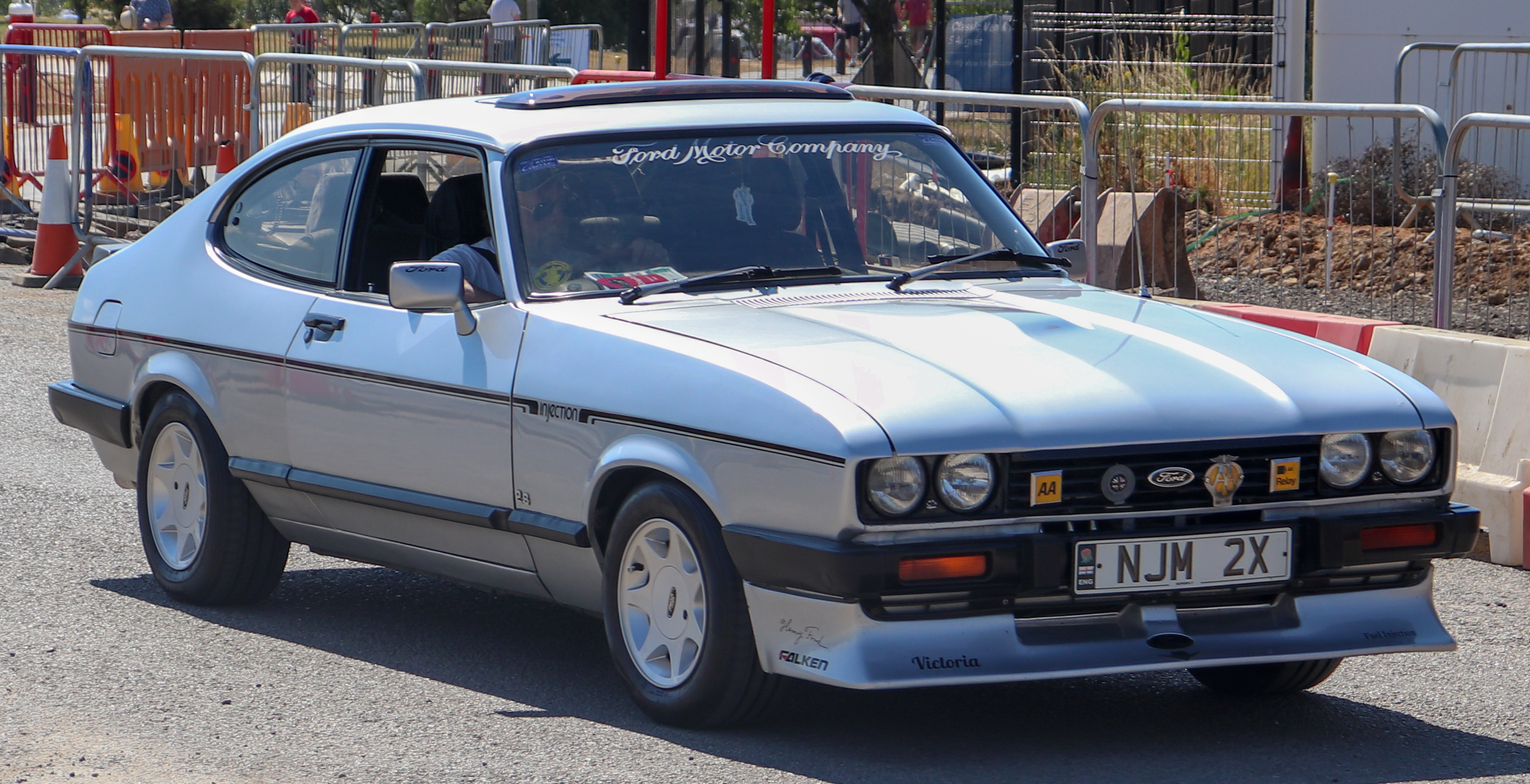 1984 Ford Capri Injection 2.8 Taken at the British Motor Museum Old Ford Rally 2018, Gaydon